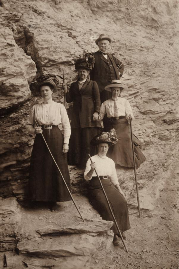 Nationaal Archief / Spaarnestad Photo, SFA002006556 Bergwandelen met wandelstokken rond 1910 Mountain hiking around 1910 Voor meer informatie en voor meer foto’s uit de collectie van Spaarnestad Photo, bezoek onze Beeldbank: U kunt ons helpen onze kennis van de fotocollecties te verrijken door tags en commentaren toe te voegen. Herkent u mensen of locaties of heeft u een bijzonder verhaal te vertellen bij één van de foto’s, laat dan een reactie achter (als u ingelogd bent bij Flickr) of stuur een mailtje naar: You can help us gain more knowledge on the content of our collection by simply adding a comment with information. If you do not wish to log in, you can write an e-mail to